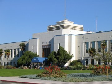 Santa Monica City Hall - 1685 Main Street, Santa Monica, Southern California. Designed by Donald B. Parkinson and built in 1938. A City of Santa Monica Designated Historic Landmark. photographed January 2005.